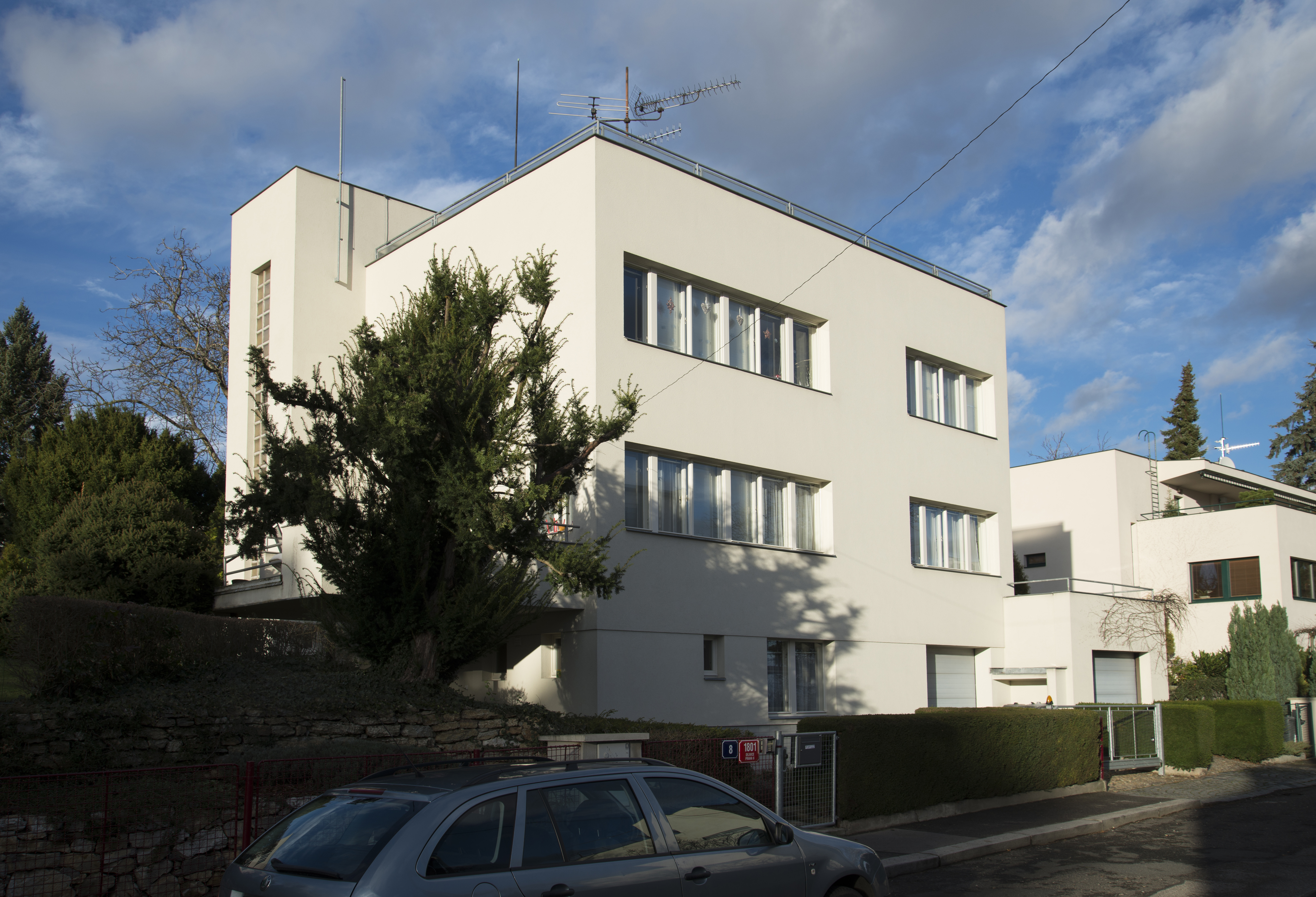 Osada Baba (Baba Functionalism colony in Prague) - House Moravec